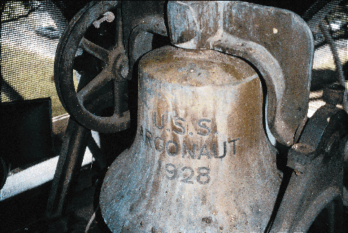 Photo of the ships bell from USS Argonaut (SS-166).